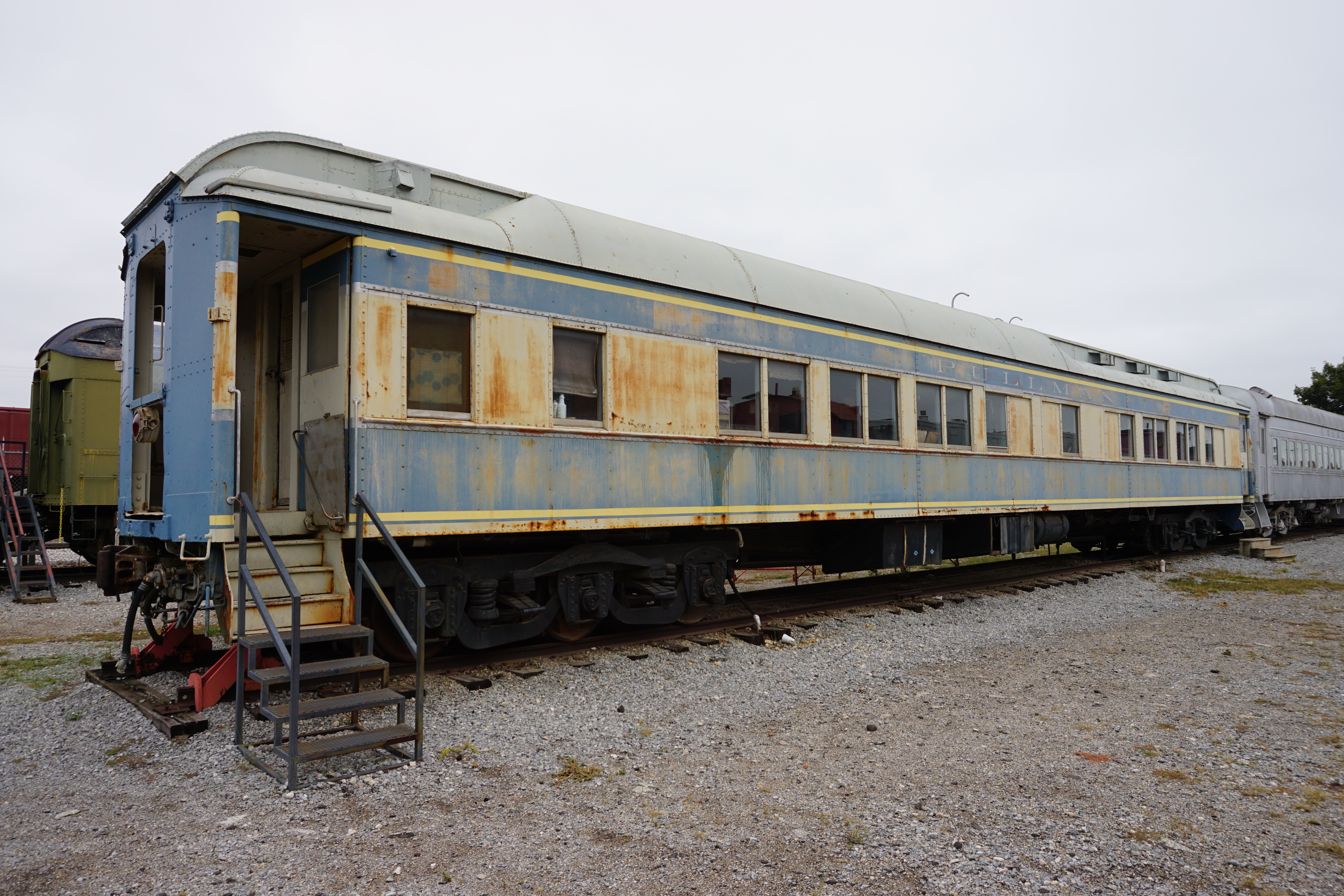 Missouri Pacific Pullman Rio Usumacinta at the Wichita Falls Railroad Museum in Wichita Falls, Texas (United States).